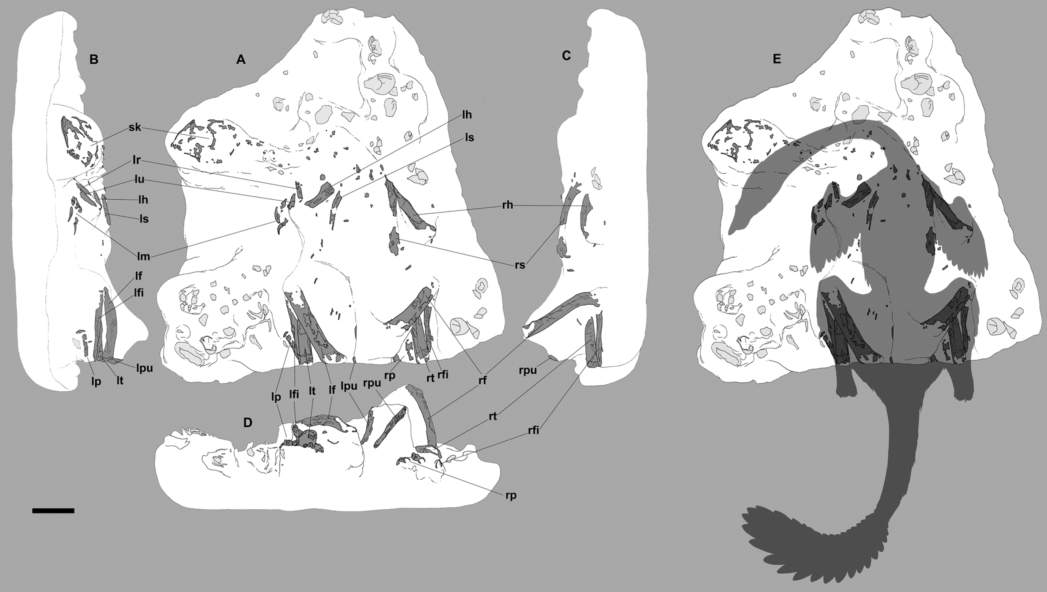 Nest and preserved elements of Nemegtomaia barsboldi (MPC-D 107/15). A, dorsal view; B, left lateral view; C, right lateral view; D, posterior view. lf, left femur; lfi, left fibula; lh, left humerus; lm, left manus; lp, left pes; lpu, left pubis; lr, left radius; ls, left scapula; lt, left tibia; lu, left ulna; rf, right femur; rfi, right fibula; rh, right humerus; rp, right pes; rpu, right pubis; rs, right scapula; rt, right tibia; sk, skull. Scale bar 10 cm. Reconstruction by Marco Auditore.